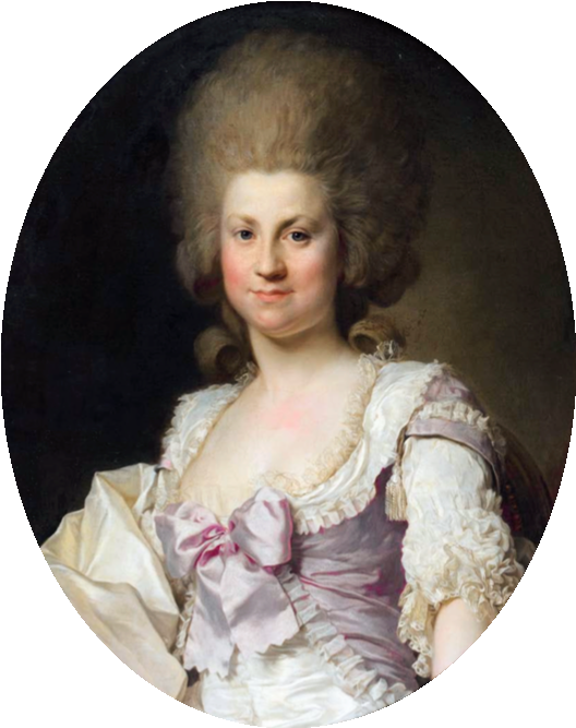 Portrait of Madeleine-Angélique-Charlotte de Bréhan, duchesse de Maillé.